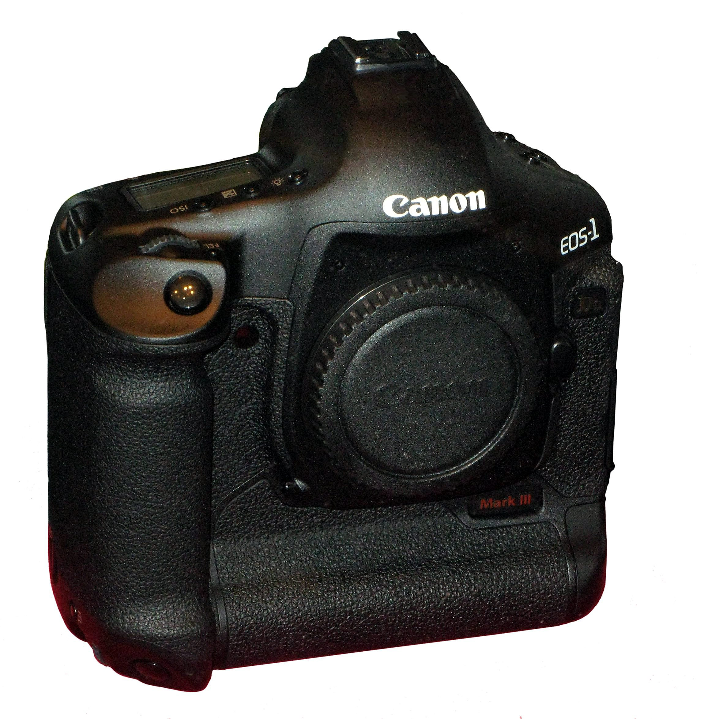 Canon EOS-1Ds Mark III